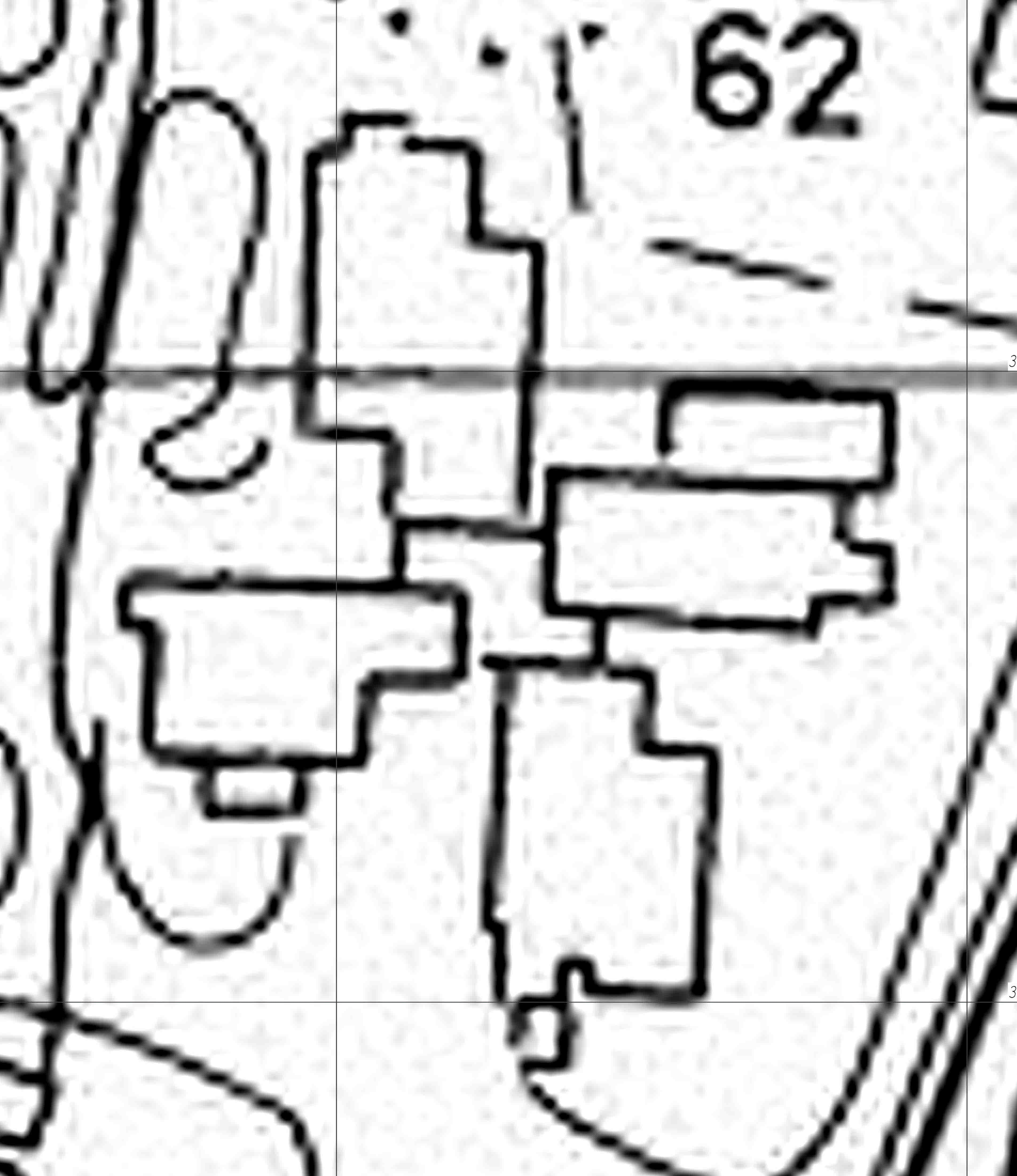 Picture from a raster-map.